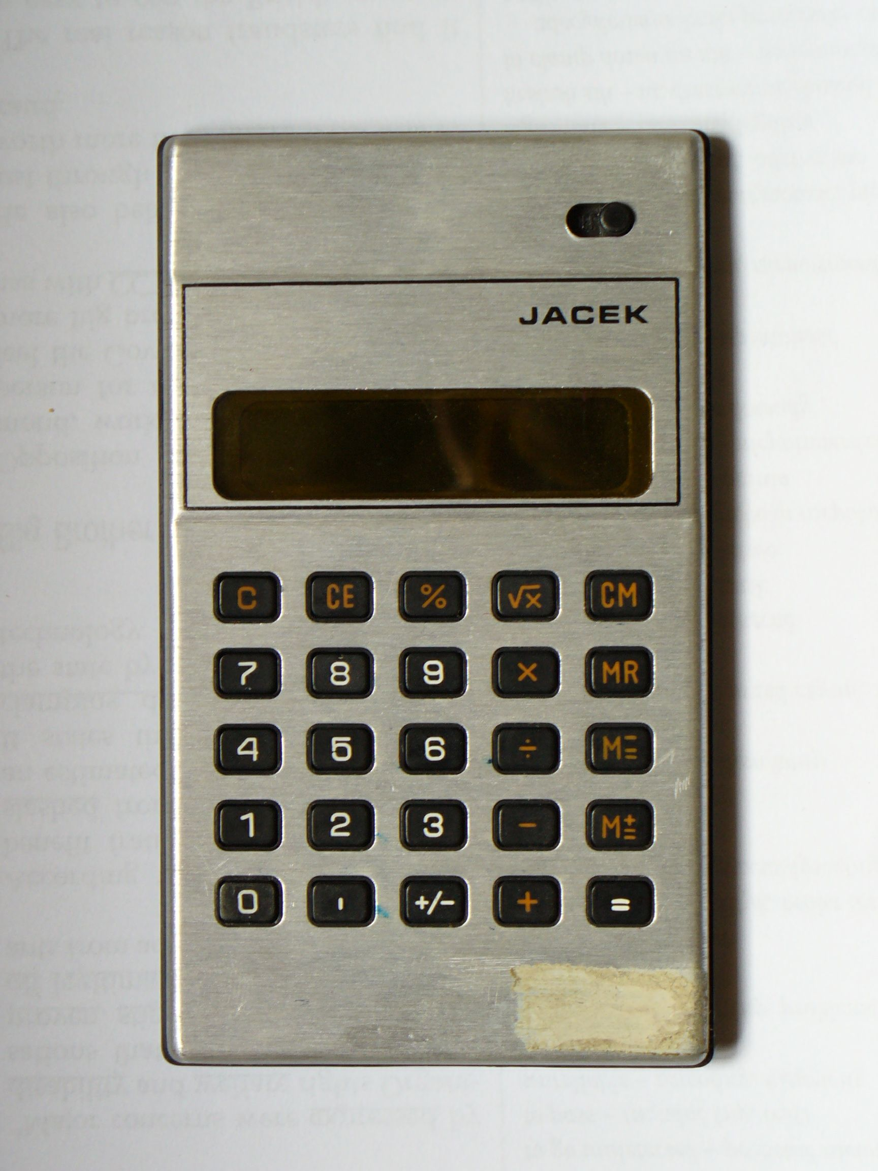 Polish calculator Elwro 442LC Jacek - front panel